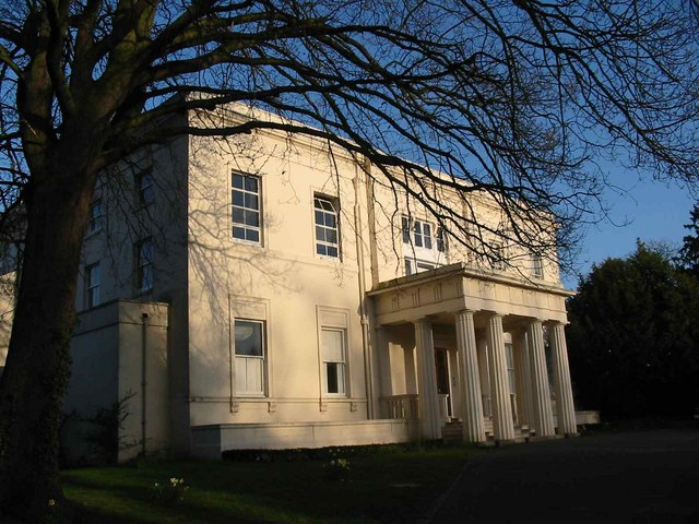 Laleham Abbey, Laleham, Middlesex: designed by JB Papworth for the 2nd Earl of Lucan and built 1803–06